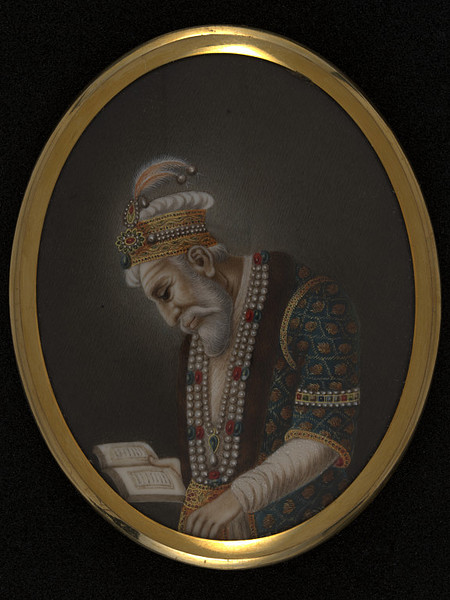 Aurangzeb was the 6th Mughal Emperor.